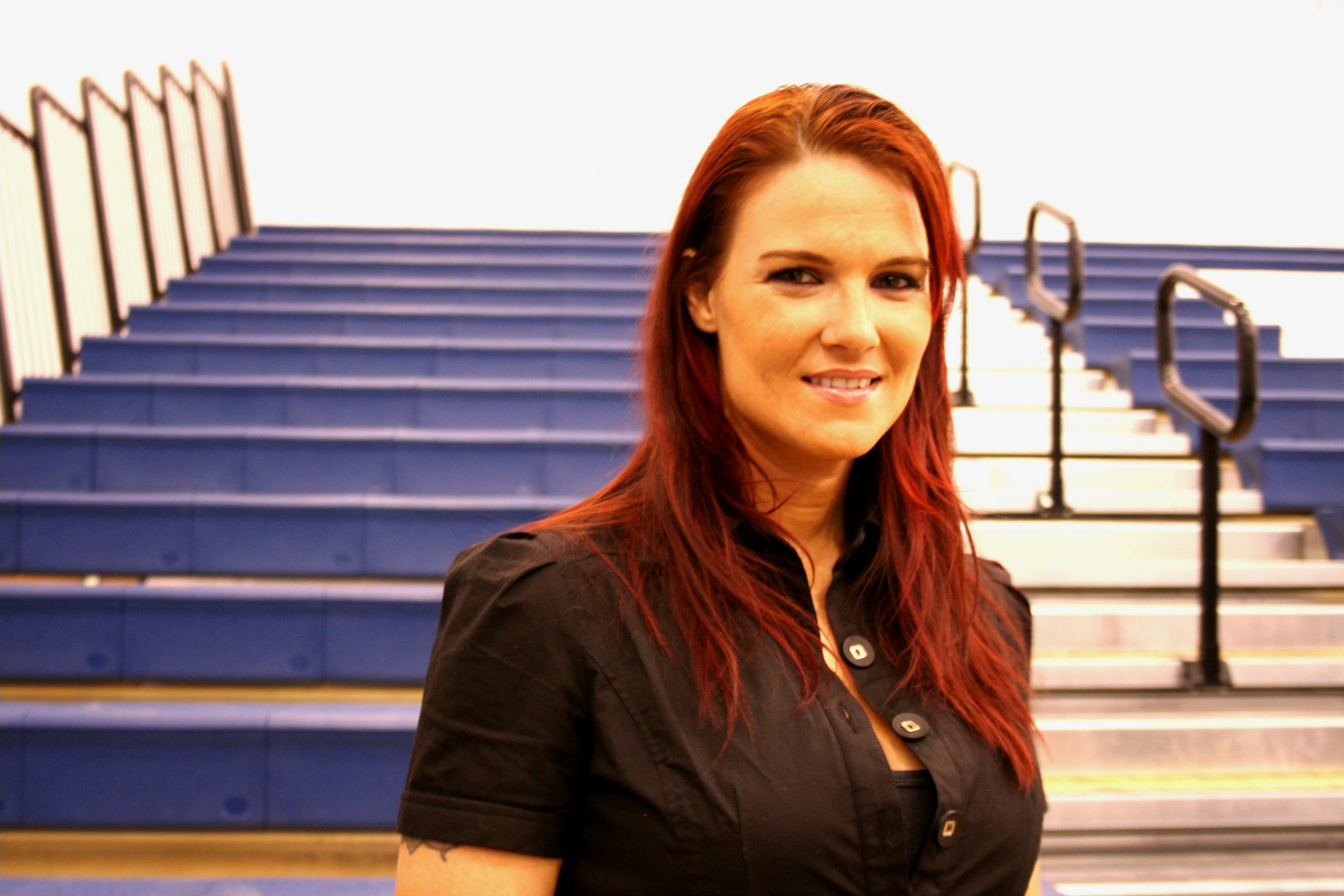 Amy "Lita" Dumas on April 21, 2007 in Harrisonburg, VA depicted person: Amy Christine Dumas (age: 32.02)